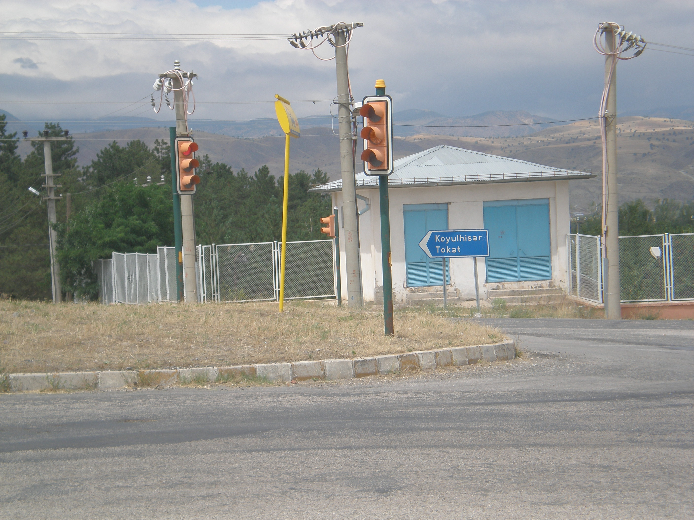 Turkey Anatolia Traffic Lights